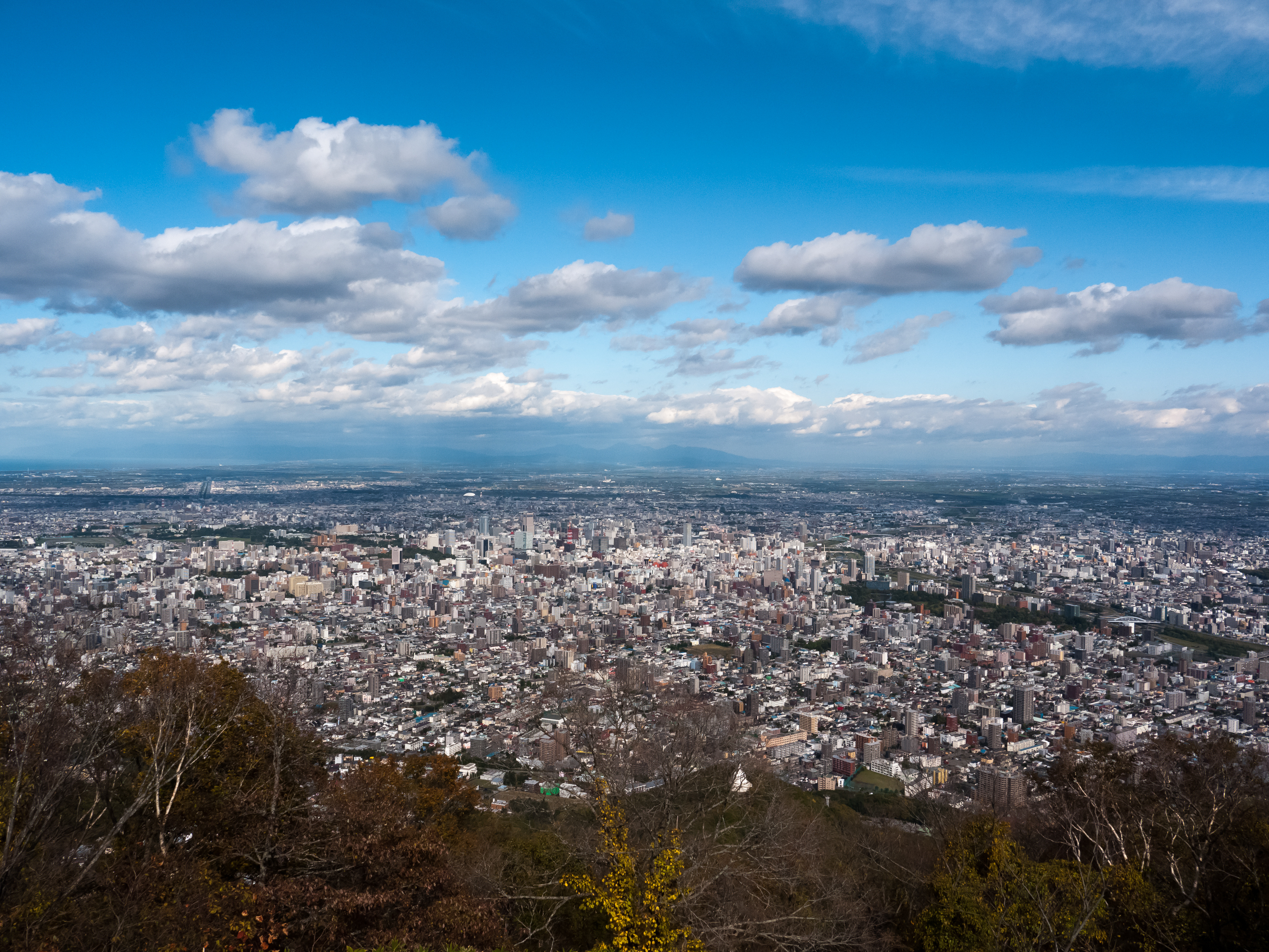 View from Mount Moiva in Sapporo